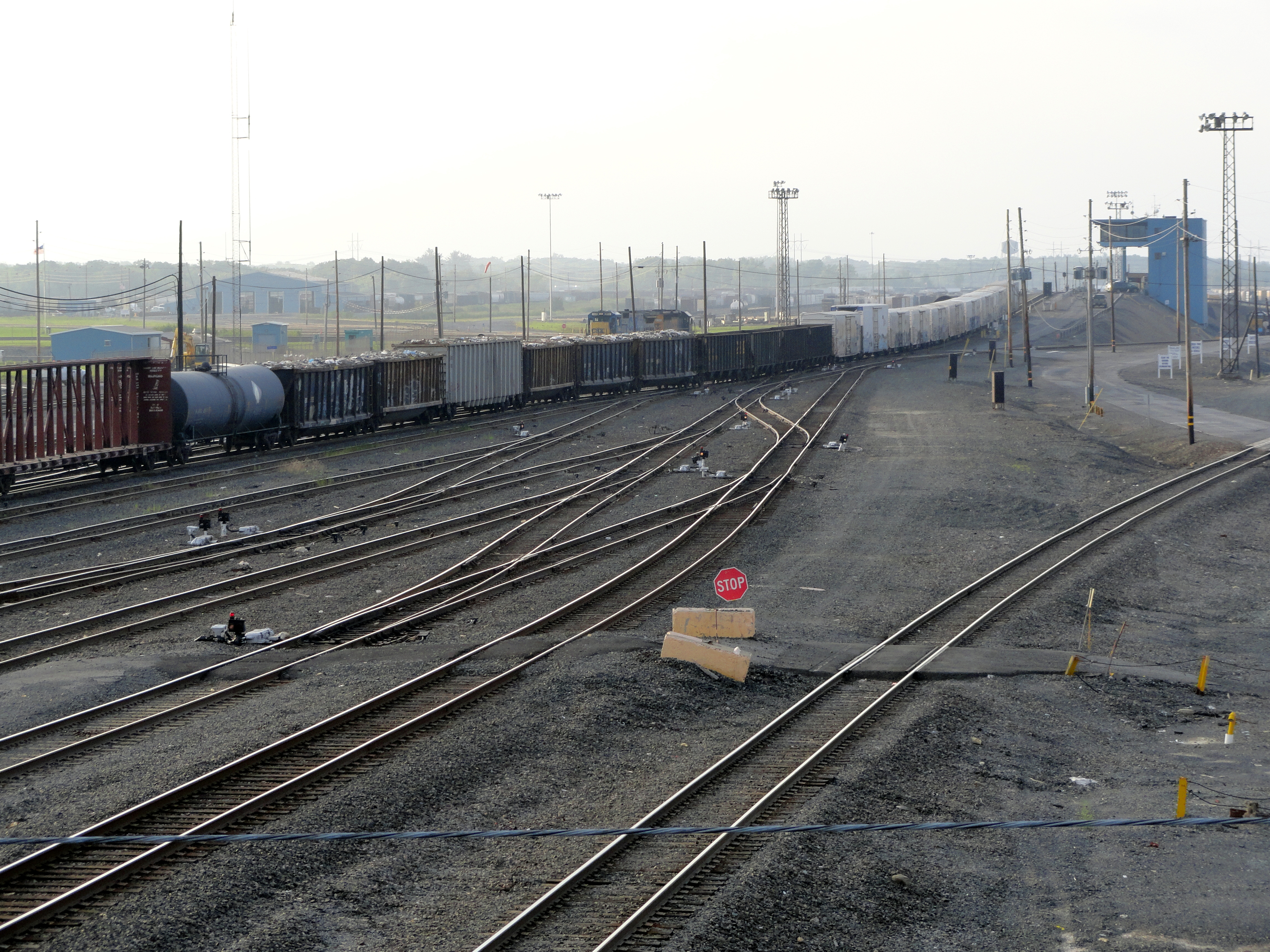 View of Selkirk Yard, south of Albany, New York, owned by CSX Transportation. A freight train in the receiving yard is being pushed over the hump. Cars are separated (uncoupled) on the hump and sorted in the classification yard beyond. The sorting process is directed by an operator and a computerized switching system in the hump control tower (right). In the distance, on the left, is the CSX car repair shop.